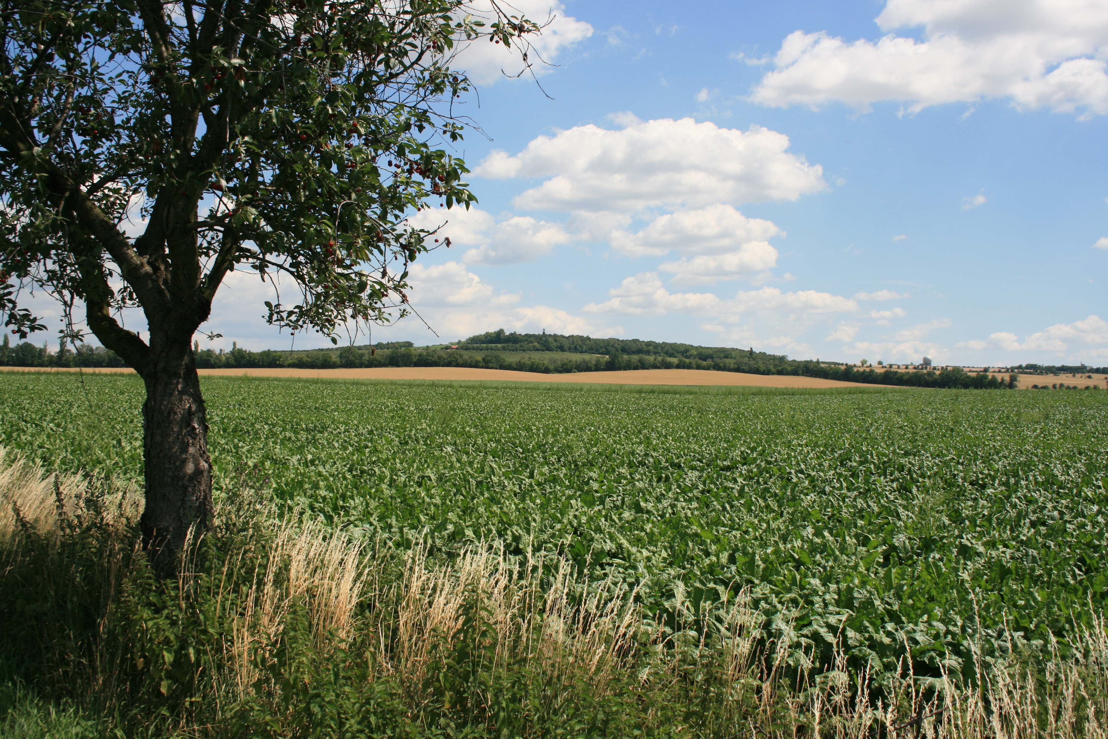 Prace hill at the battlefield of Austerlitz, with the peace monument. View from the road Prace-Kobylnice.